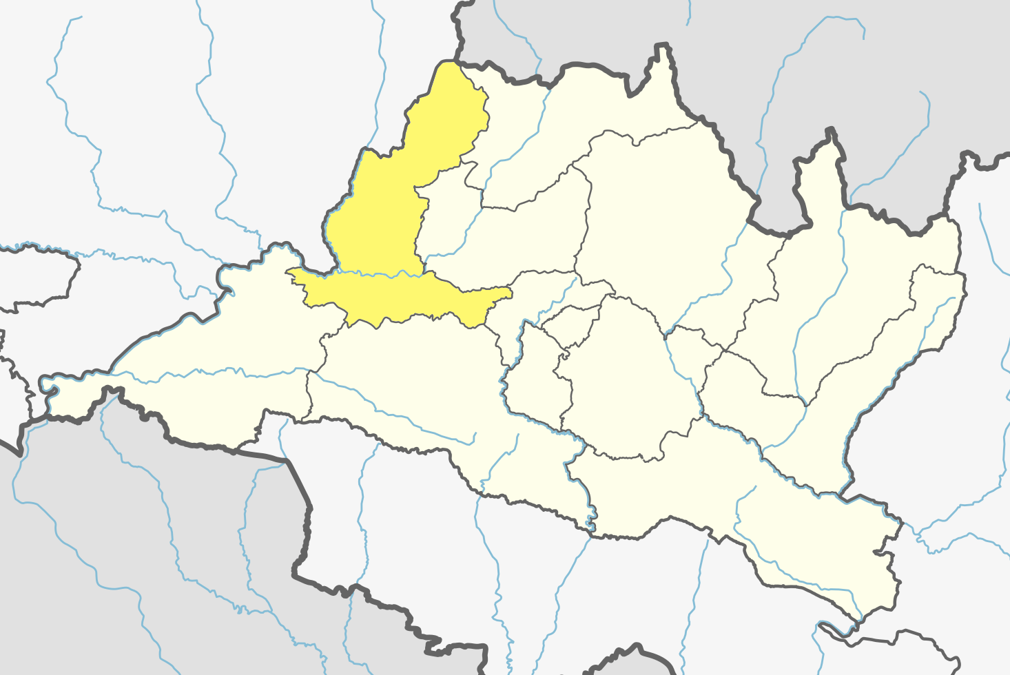 A district of Bagmati Pradesh